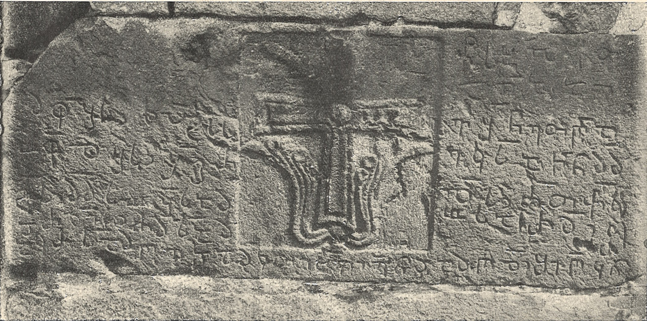 A cross-stone with Georgian inscription, mentioning persons surnamed Mamalaisdze, dating from 934. From Nicholas Marr's dairy of his travels to Shavsheti and Klarjeti (1911).